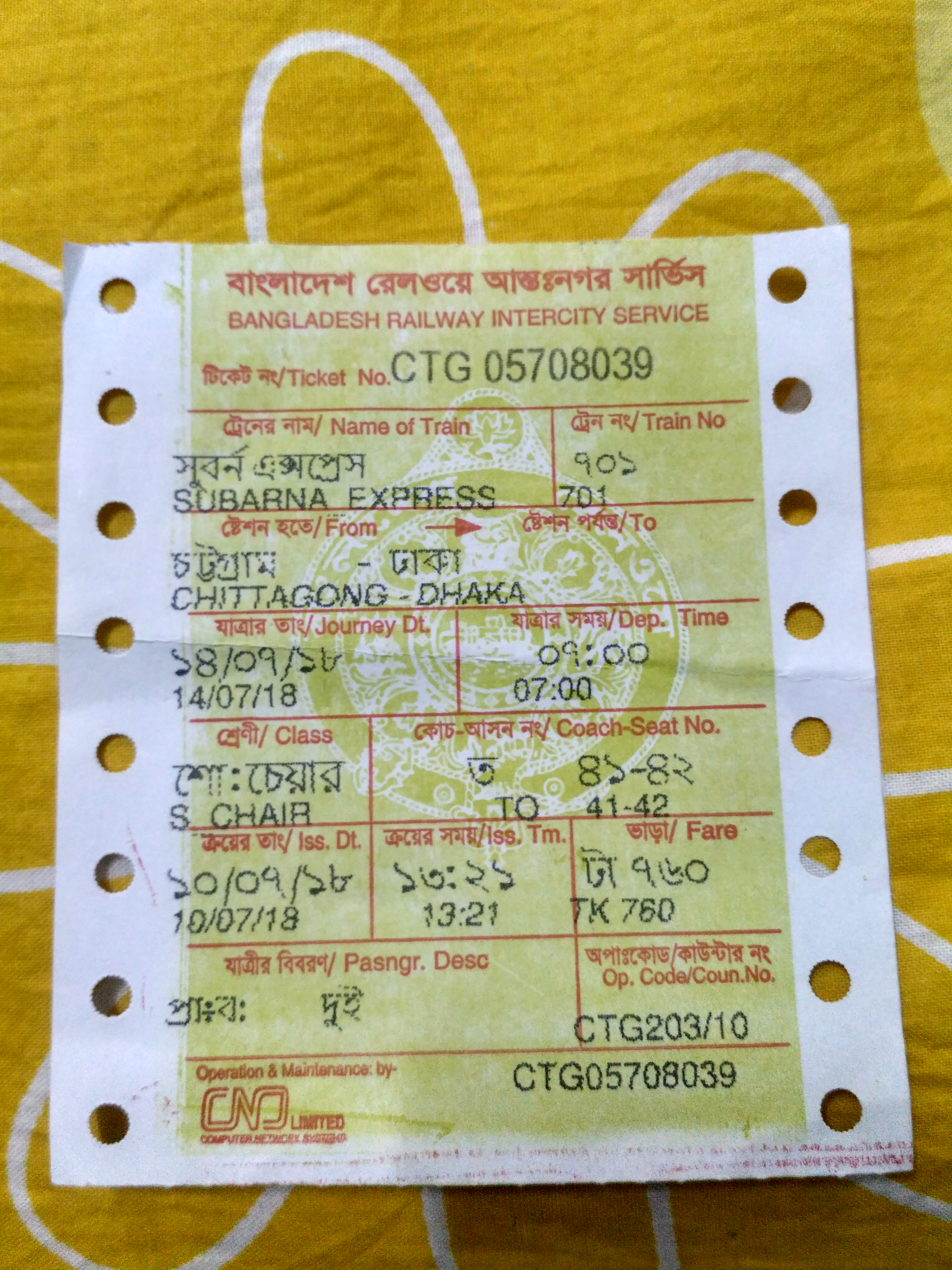 View of a train ticket of Subarna Express (Chattogram to Dhaka) of Bangladesh Railway.